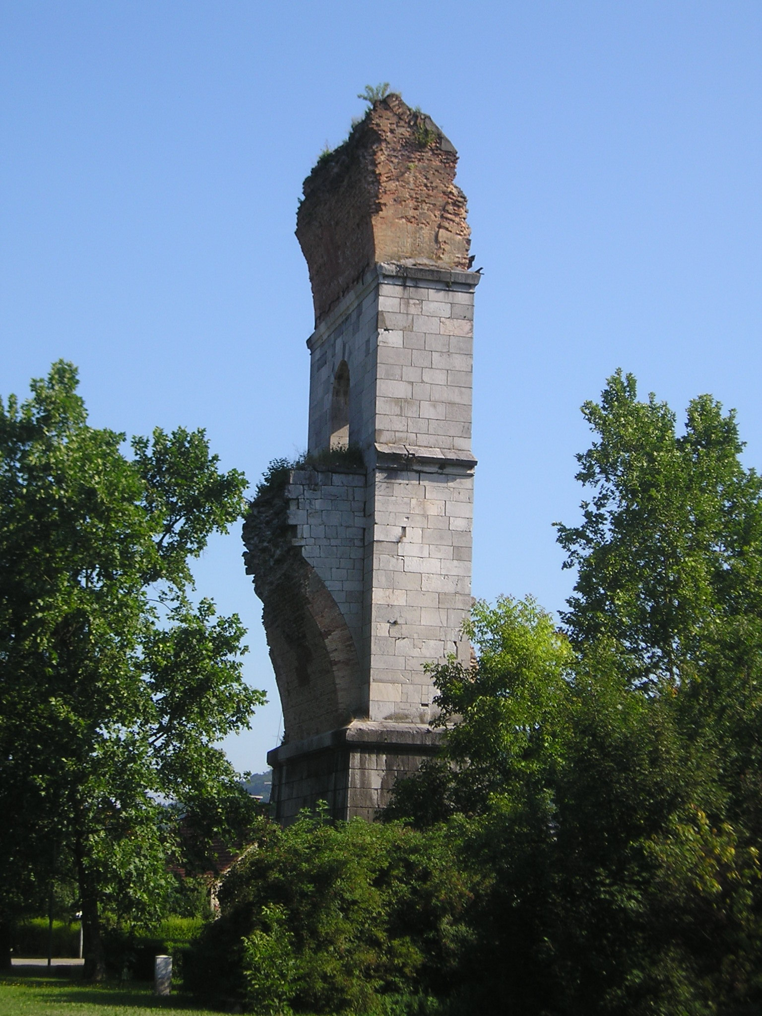 Borovnica, Slovenia - remaining pillar of the former Borovnica railway viaduct (destroyed after WW2) in Borovnica downtown